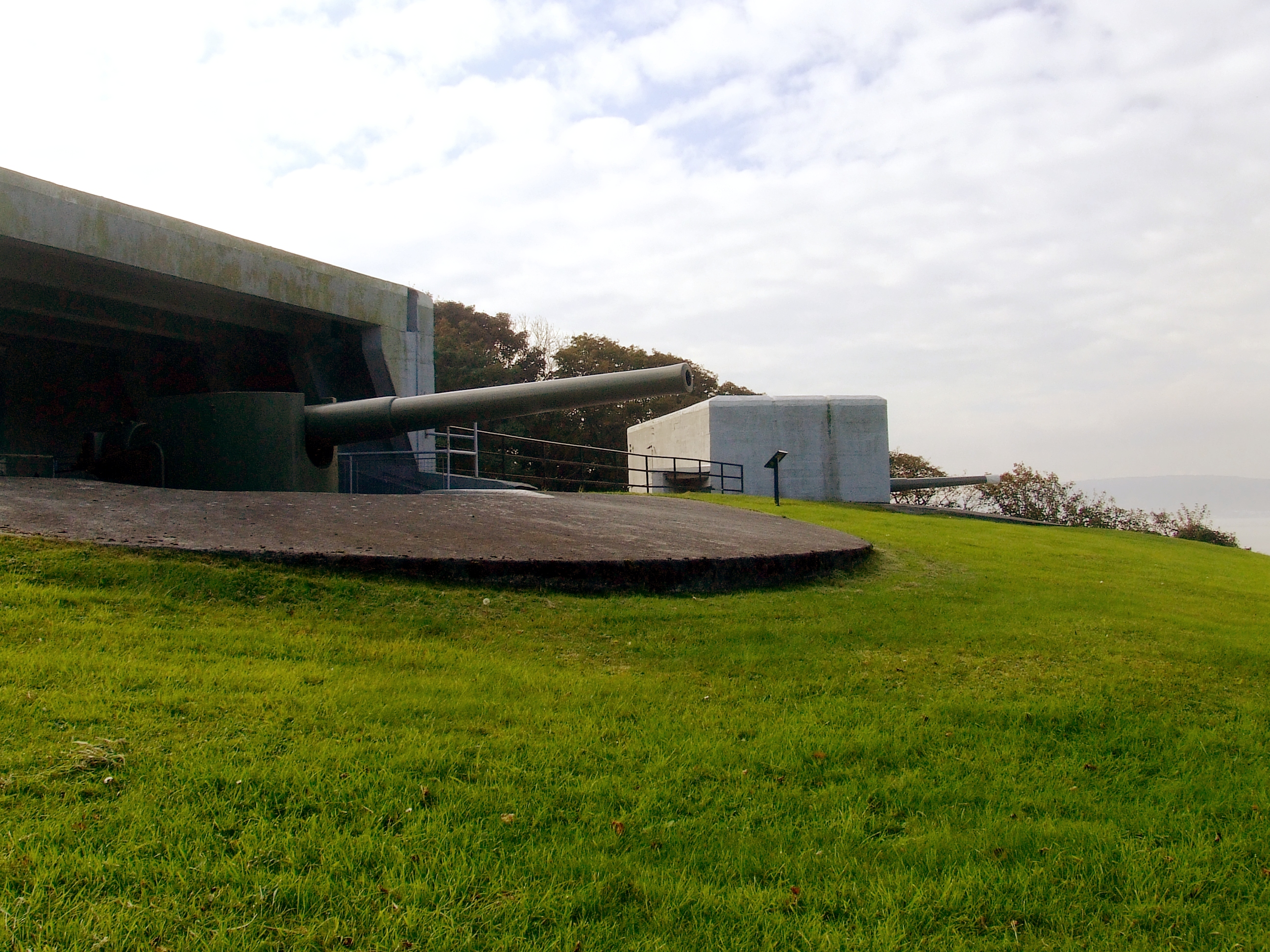 Grey Point Fort, a coastal battery in Crawfordsburn Country Park, County Down